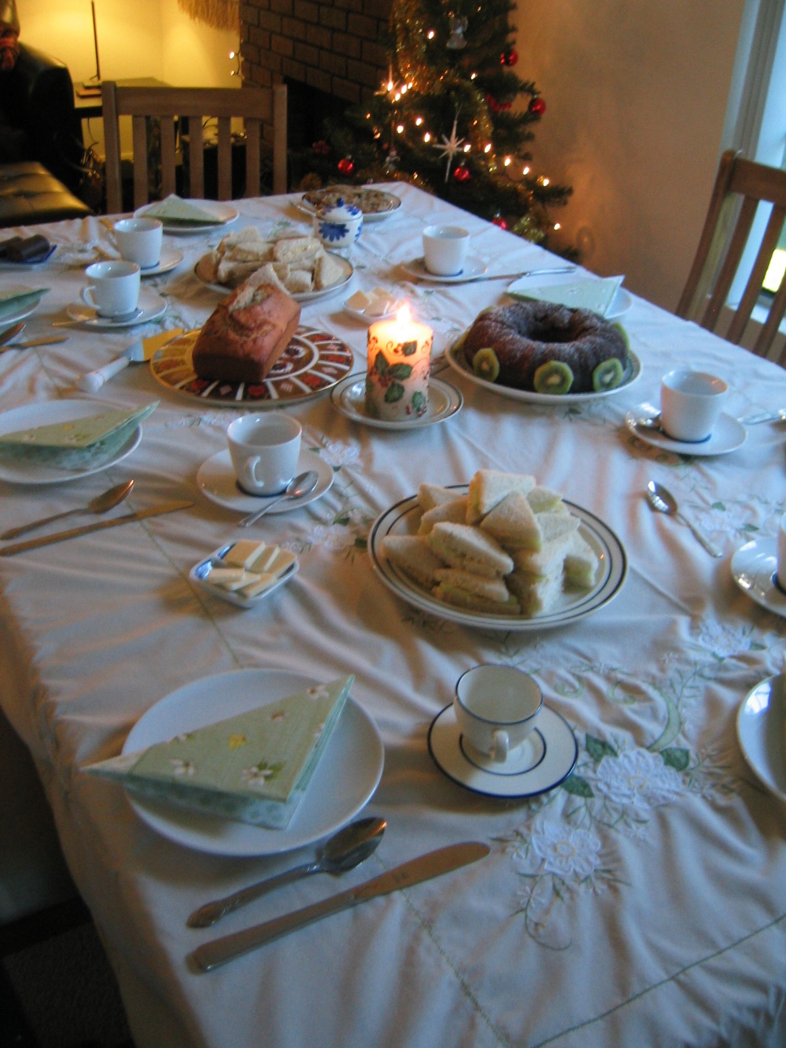 Afternoon tea.